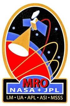 The official mission patch for the 2006 NASA/JPL mission Mars Reconnaissance Orbiter.